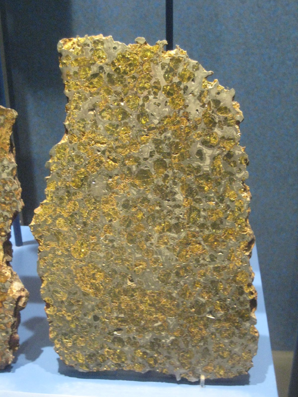 Imilac meteorite. Found 1822, Atacama, Chile.